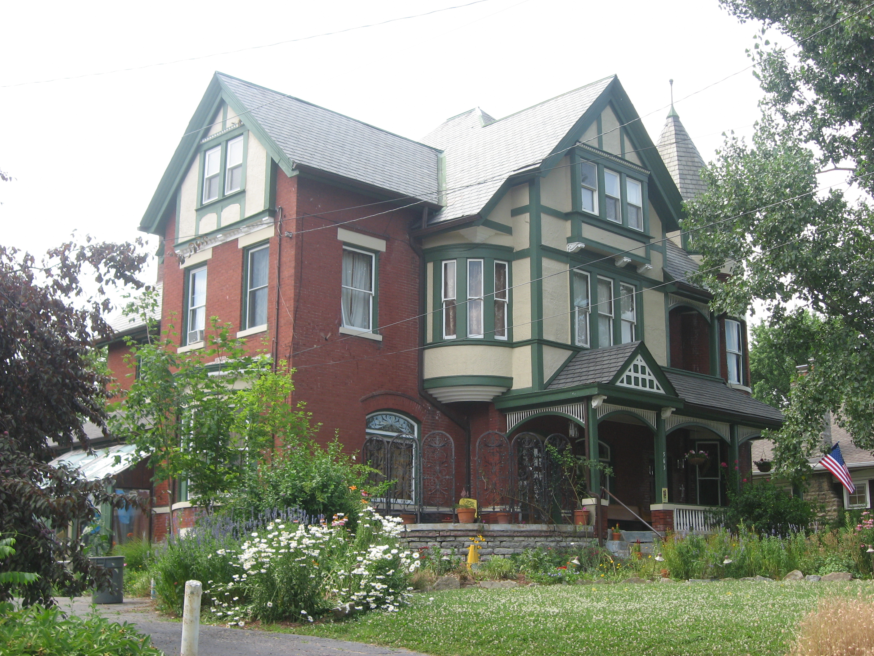 Front and southern side of the George Scott House, located at 565 Purcell Avenue in the East Price Hill neighborhood of Cincinnati, Ohio, United States. Built in 1887 to a Samuel Hannaford design, it is listed on the National Register of Historic Places.